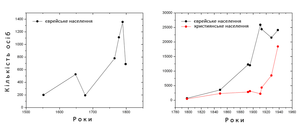 jewish (black) and christian (red) population in Lutsk, 1552-1938